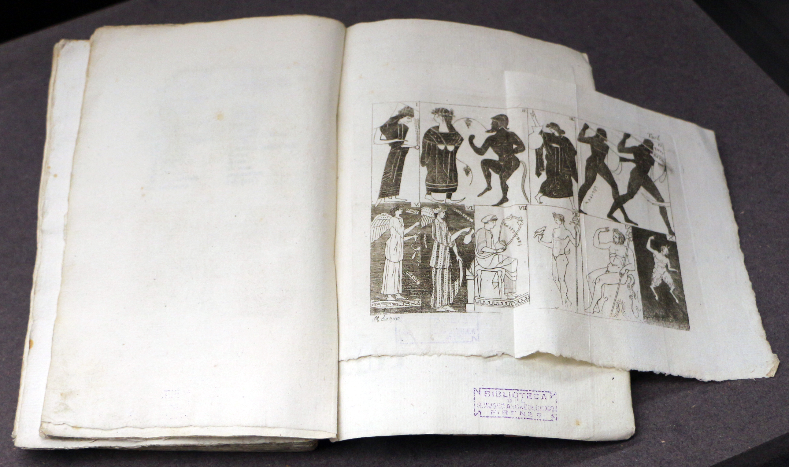 Winckelmann, Firenze e gli Etruschi (2016 exhibition)